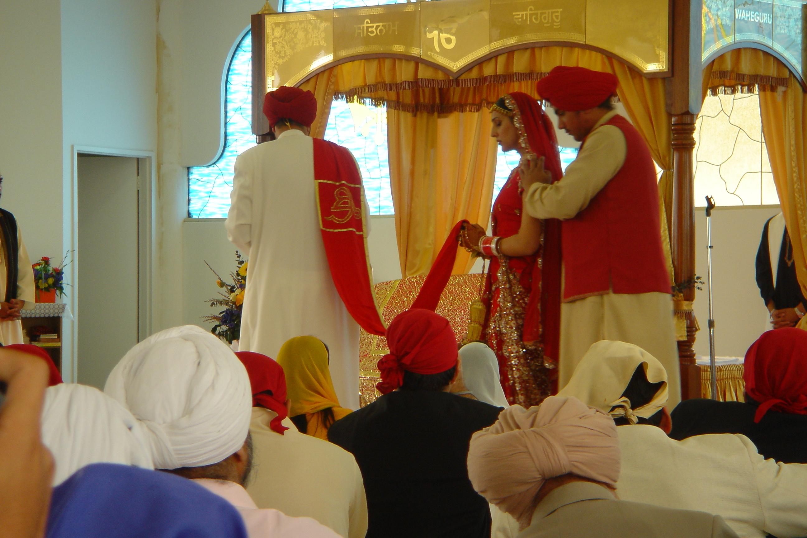 A Sikh couple getting married. Anand Karaj ceremony.